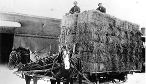 Farmers transporting hay on a wagon near Thorp, Washington ca. 1920.